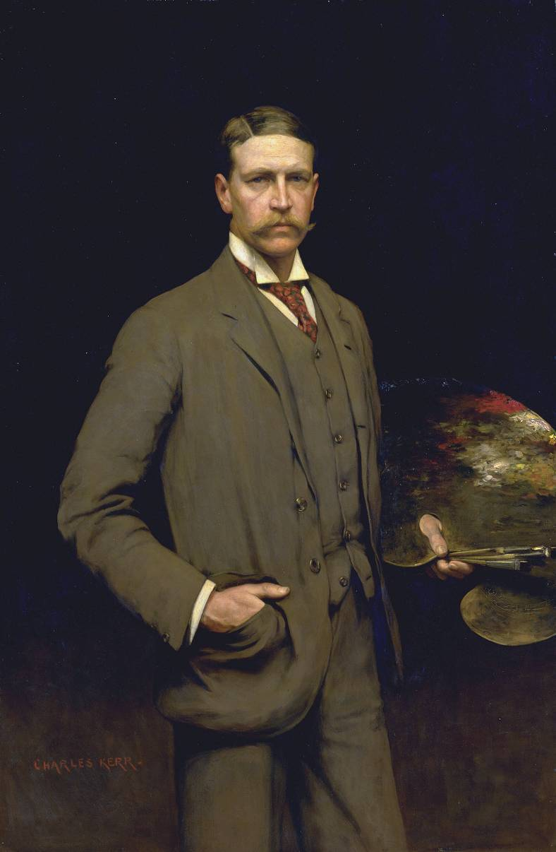 Self-portrait of Charles Henry Malcolm Kerr